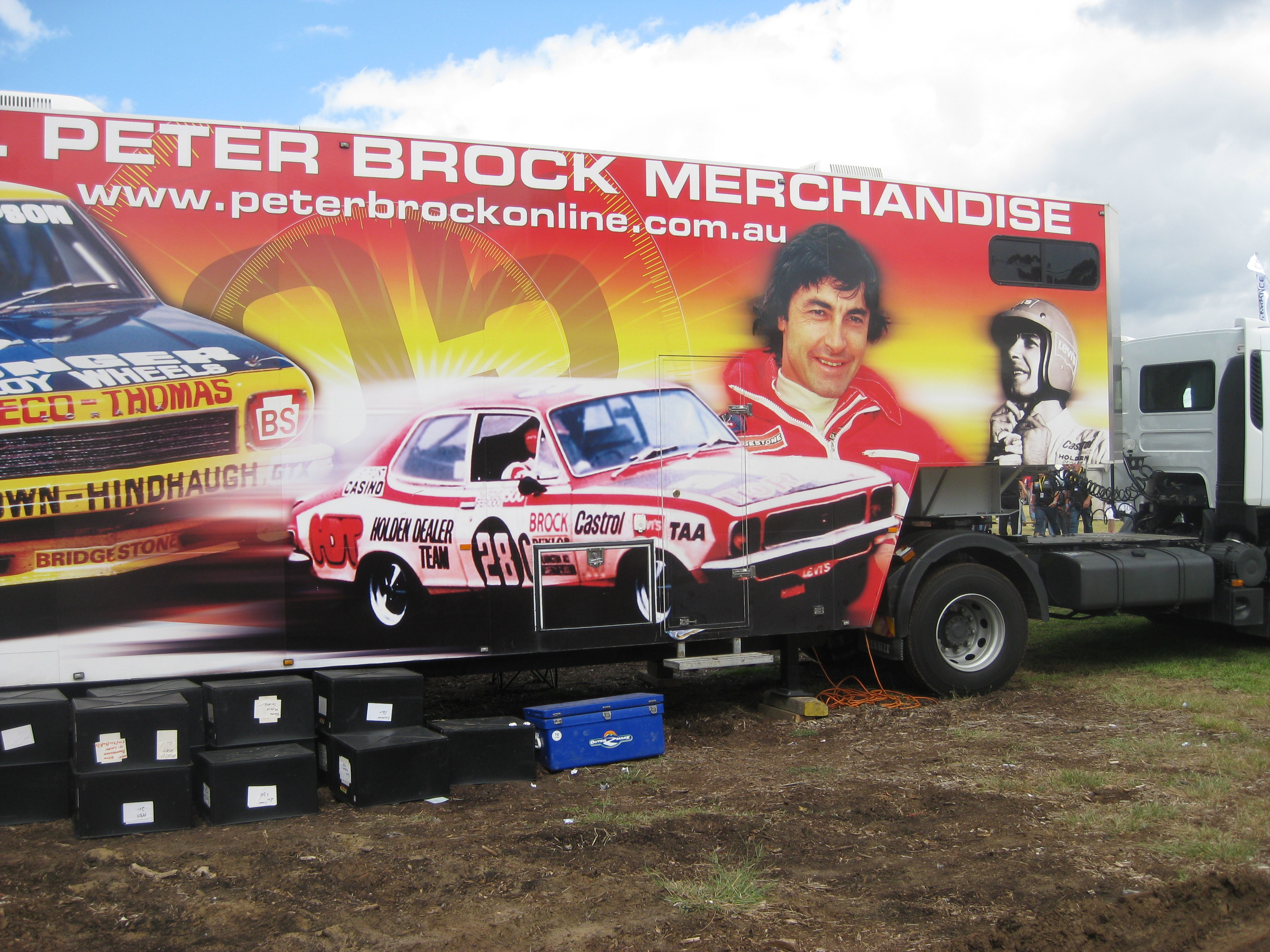 Official Peter Brock Merchandise Truck at the 2012 Clipsal 500 Adelaide